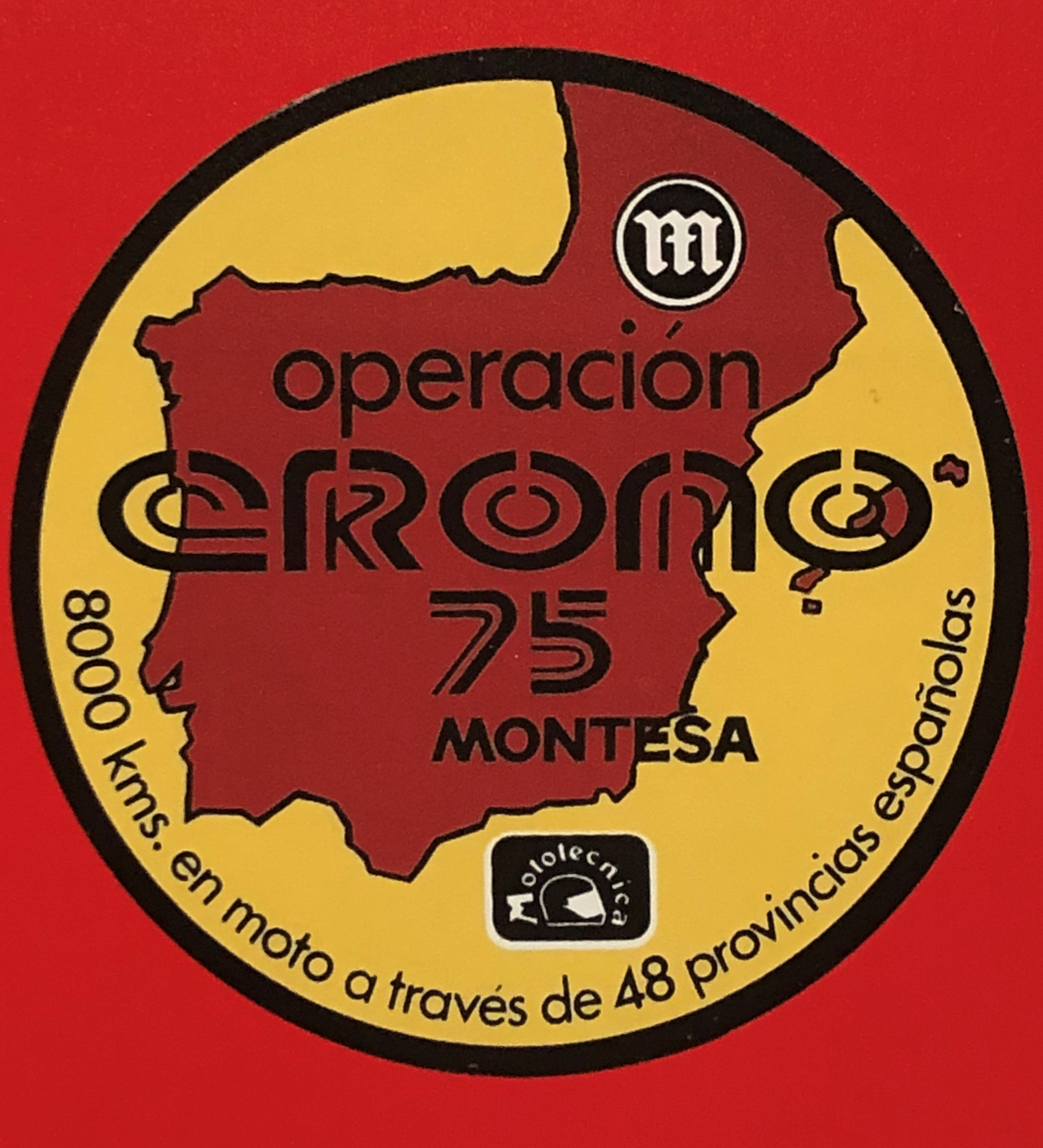 Montesa Operación Crono 75 logo